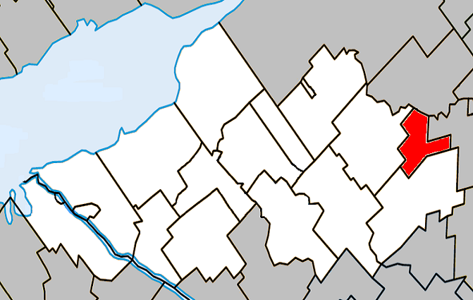 Location of Aston-Jonction, Quebec within Nicolet-Yamaska Regional County Municipality.